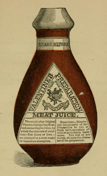 "A Brief History of the Production of Valentine's Meat Juice Together With Testimonials of the Medical Profession." from library of congress site